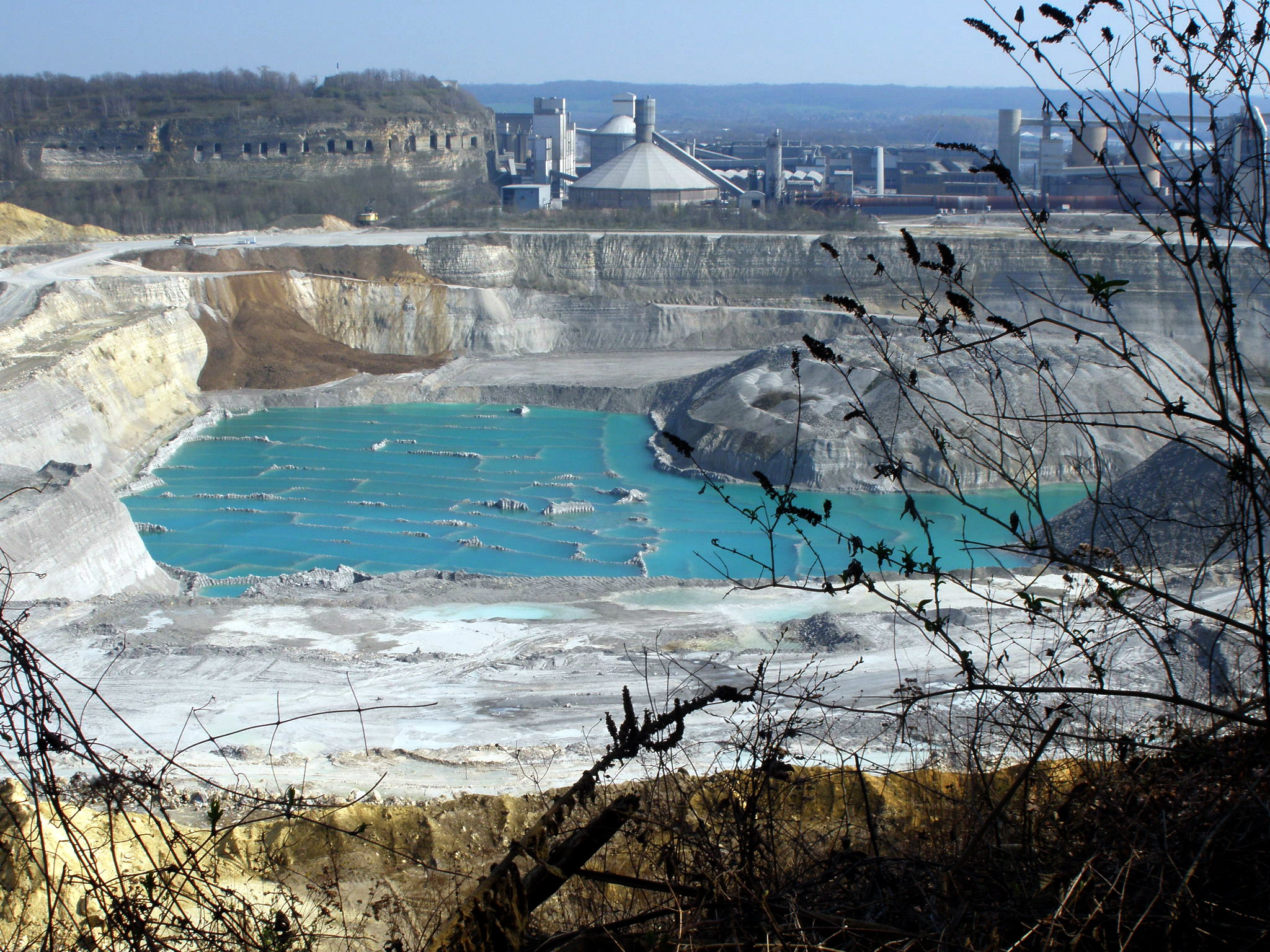 Maastricht, the Netherlands. View of an artificial lake in the ENCI quarry on the hill Sint-Pietersberg, South of Maastricht. Landscape refurbishment is underway in this area as part of the closure of the quarry in 2018.